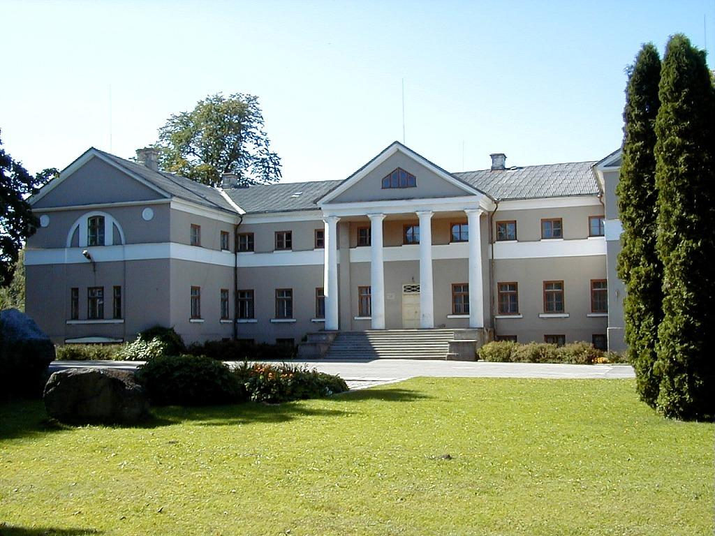 Pastende Manor